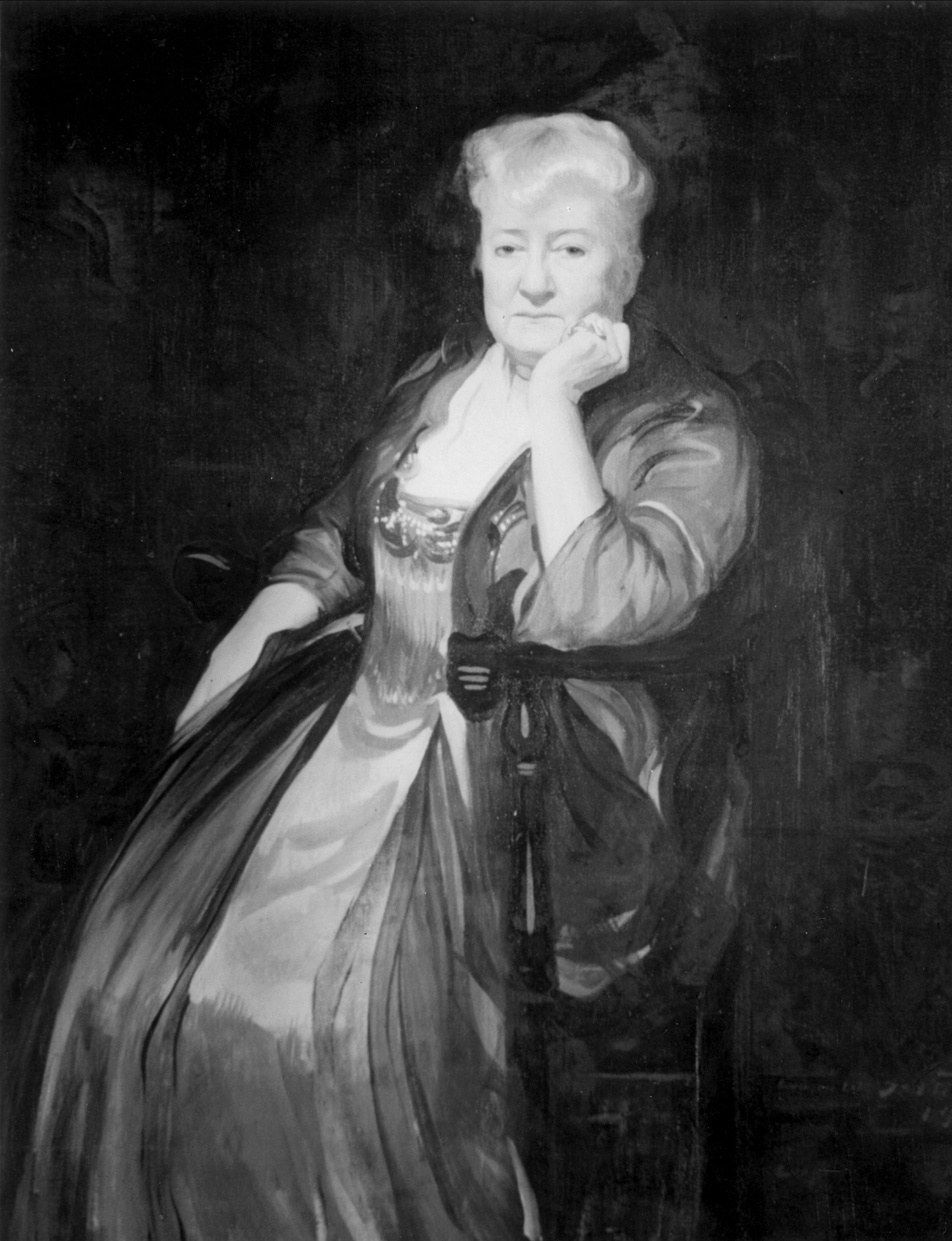 Sara Yorke Stevenson (1847-1921), portrait painting